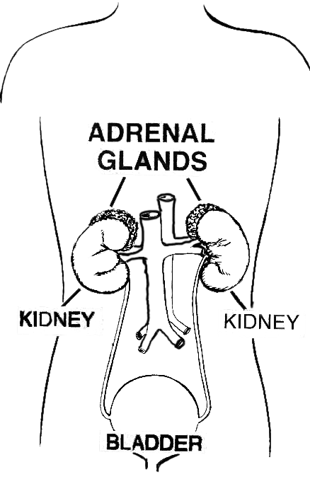 line art drawing of Adrenal gland, cleaned up by Micze